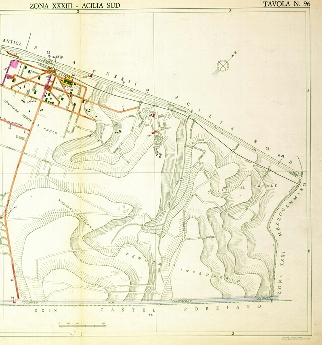 Borgo Acilio